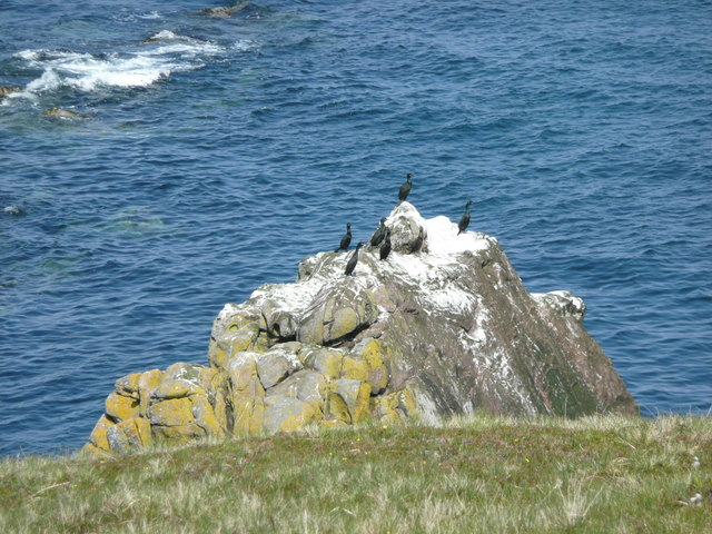 Shags on Rubha Shamhnan Insir Obviously a favoured perching place.